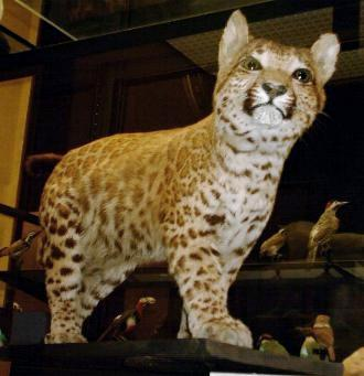 Photographer: Sarah Hartwell (Messybeast). Taxidermy Pumapard at Rothschild Museum, Tring, England.